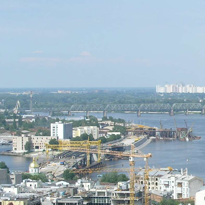 Podilskyi Metro Bridge and Rybalskyi Peninsula, seen from the Podil.